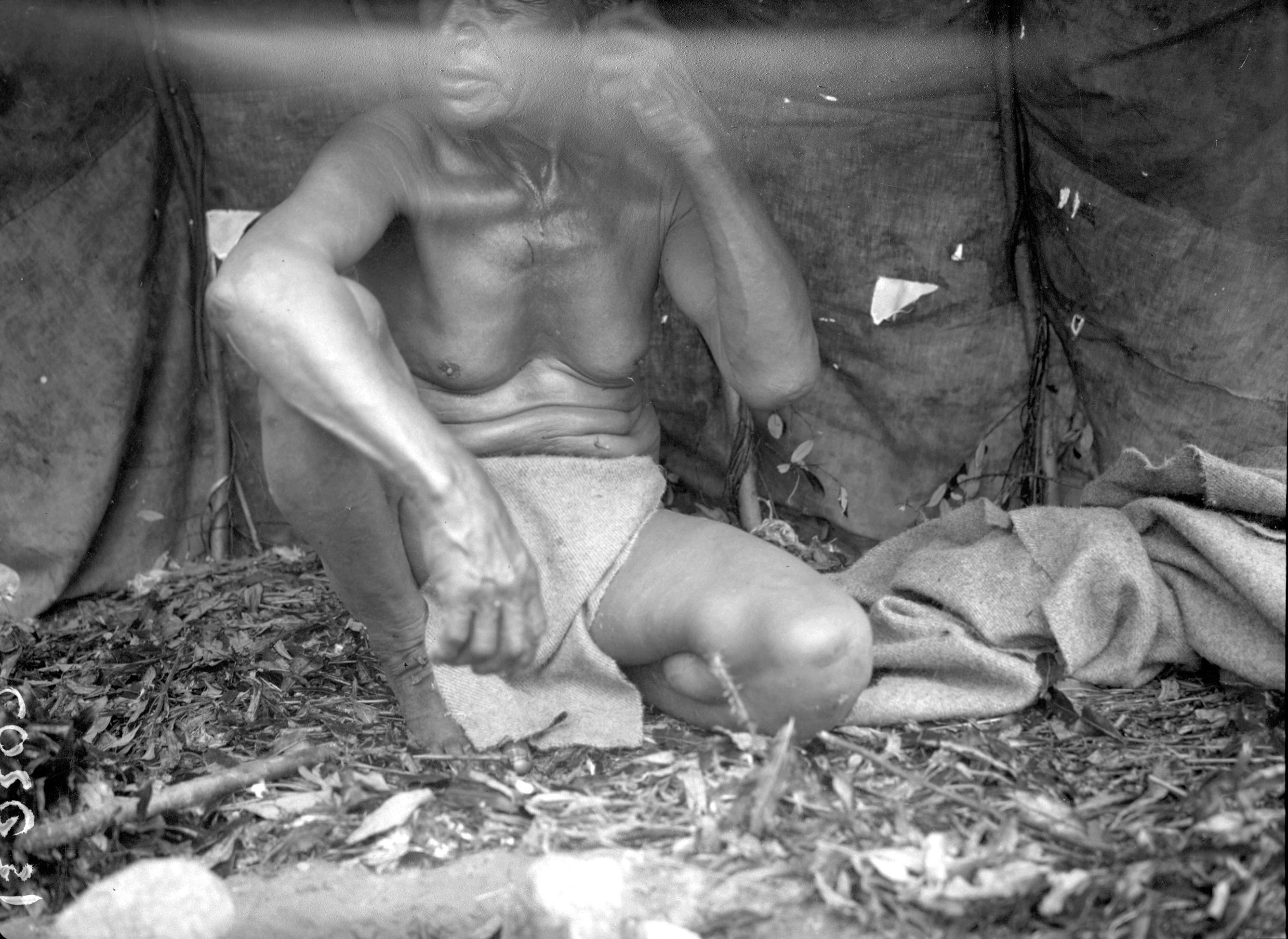 From the Paul Coze fonds, PR2006.0508/39.